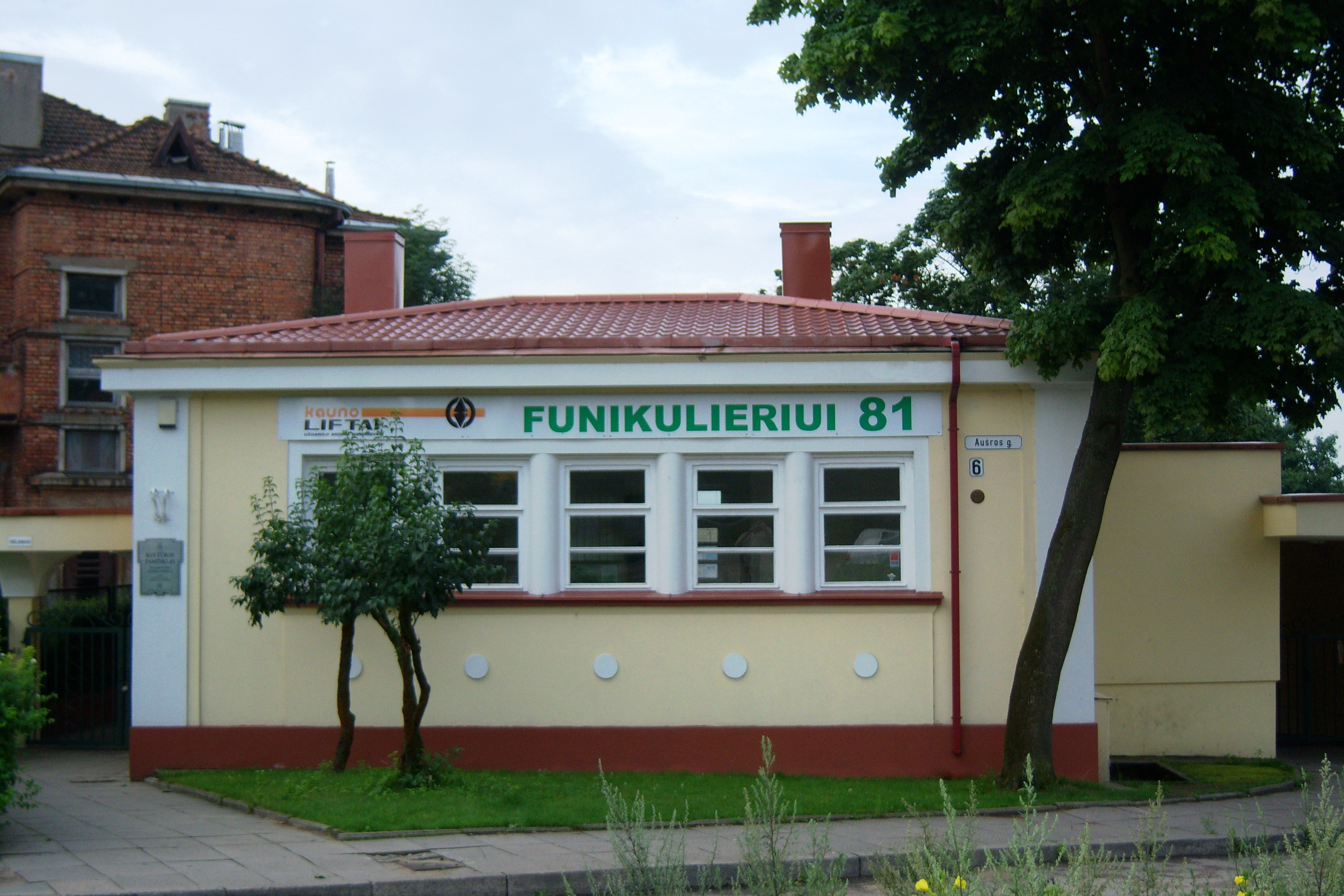 Žaliakalnis Funicular Railway, top point, Kaunas, Lithuania